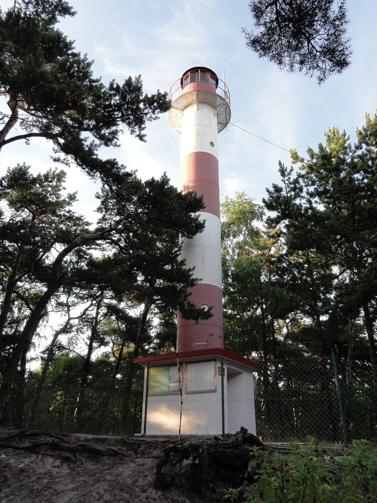 Jastarnia, Lighthouse